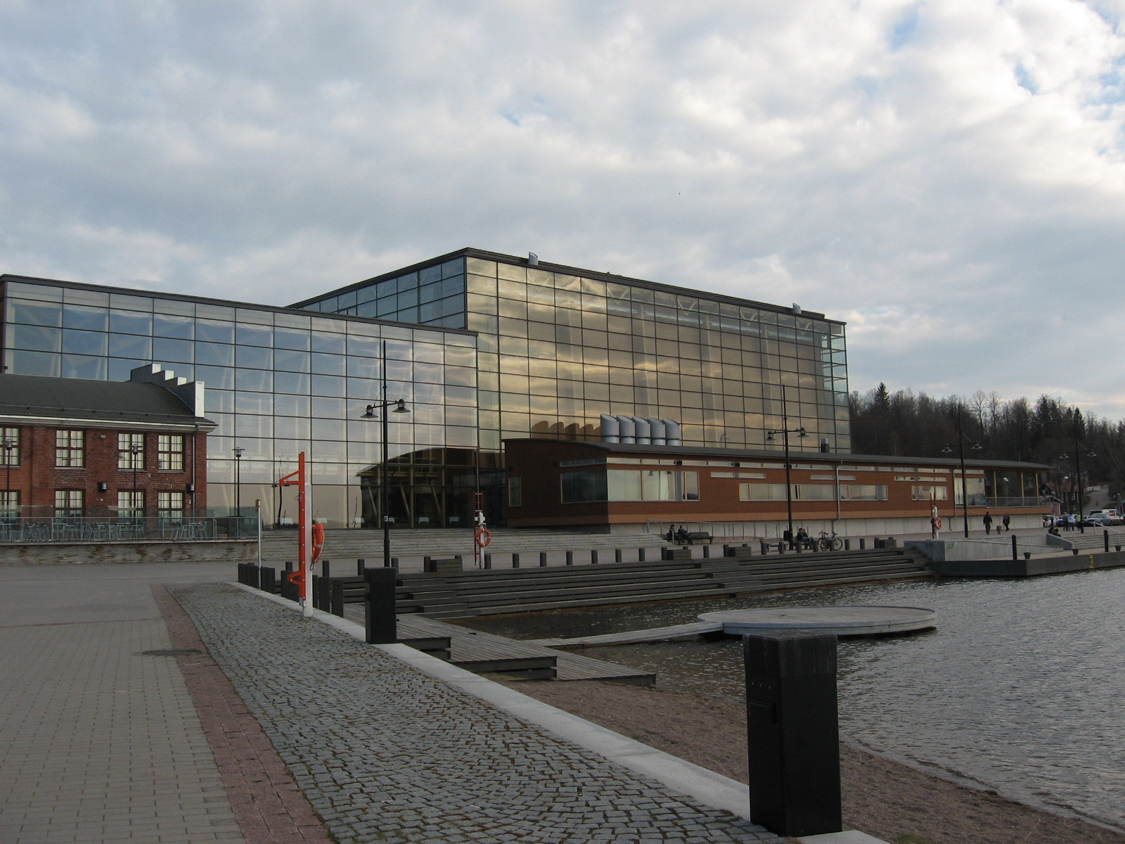 Sibelius hall Congress & Concert Center in Lahti, Finland